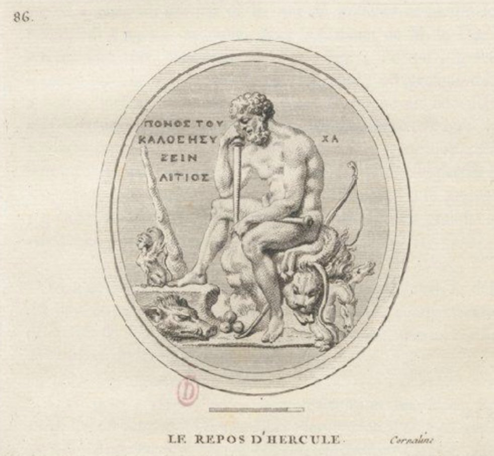 Hercules resting